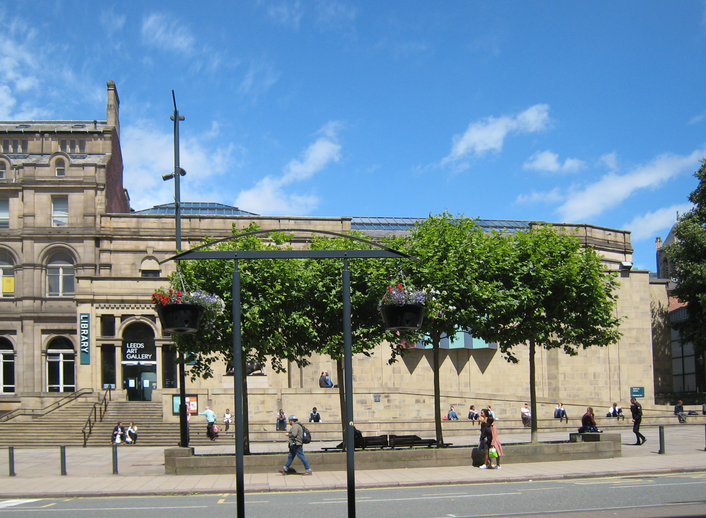 Leeds City Art Gallery, The Headrow. Leeds. Main entrance and frontage. To the left is the Leeds City Library, to the right the Henry Moore Institute.